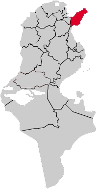 Map of Tunisia with highlighted Nabeul Governorate